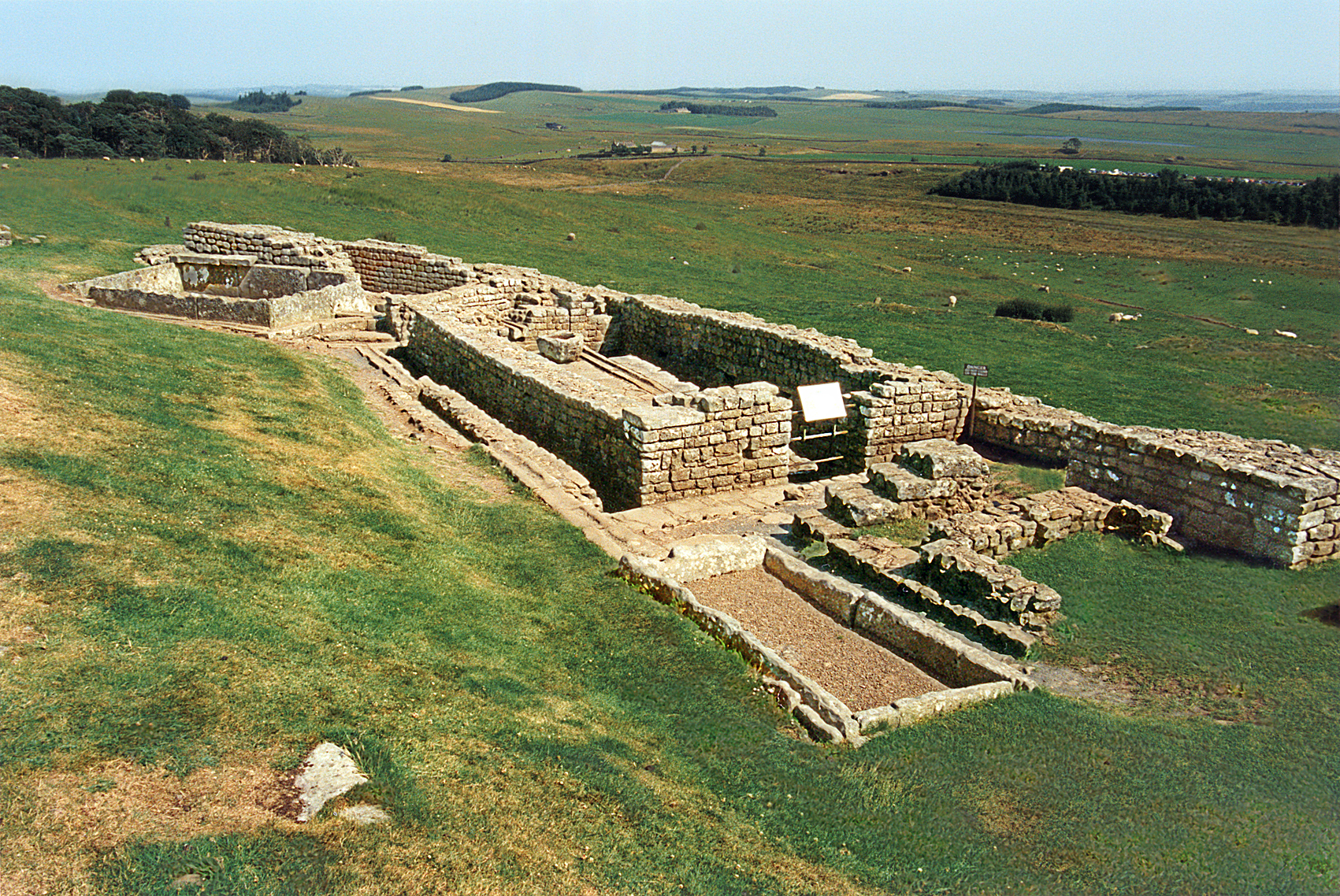 The latrines of Housesteads Roman Fort along Hadrian’s Wall.